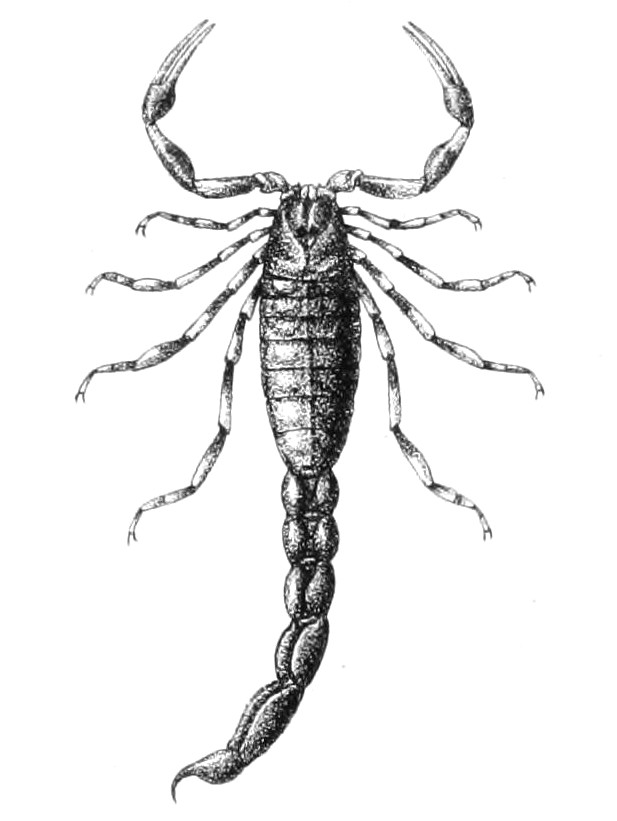 Heterocharmus cinctipes Pocock, 1892 = Charmus laneus Karsch, 1879